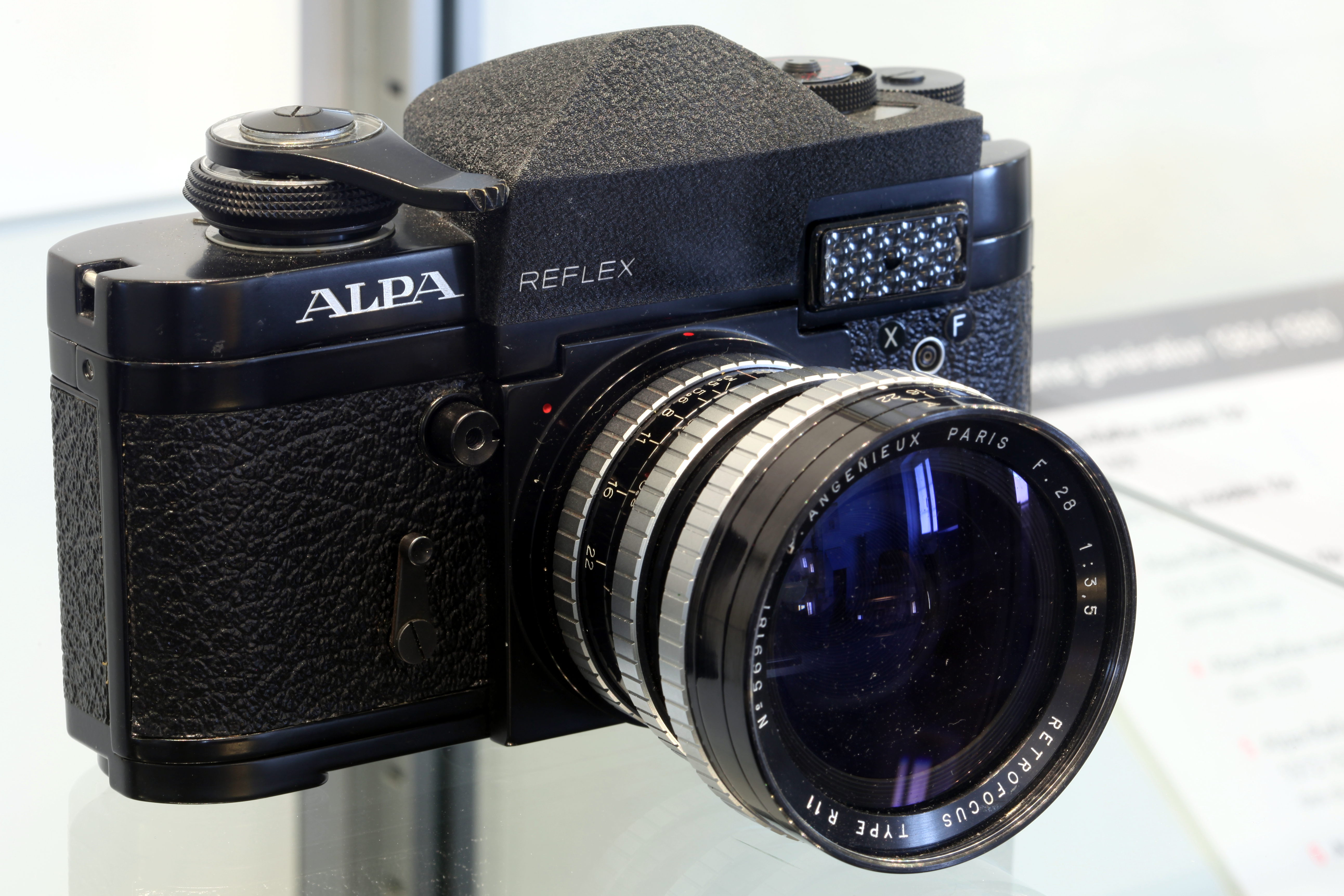 Alpa camera. On display at Vevey photography museum.